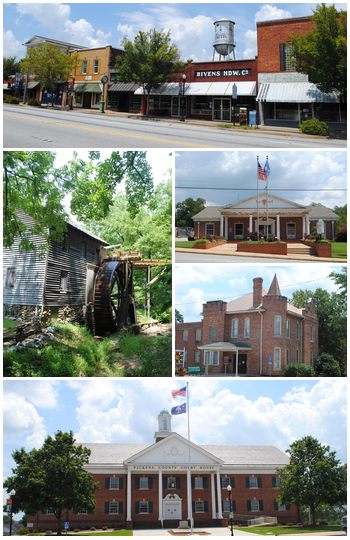 Photos I took around Pickens, SC